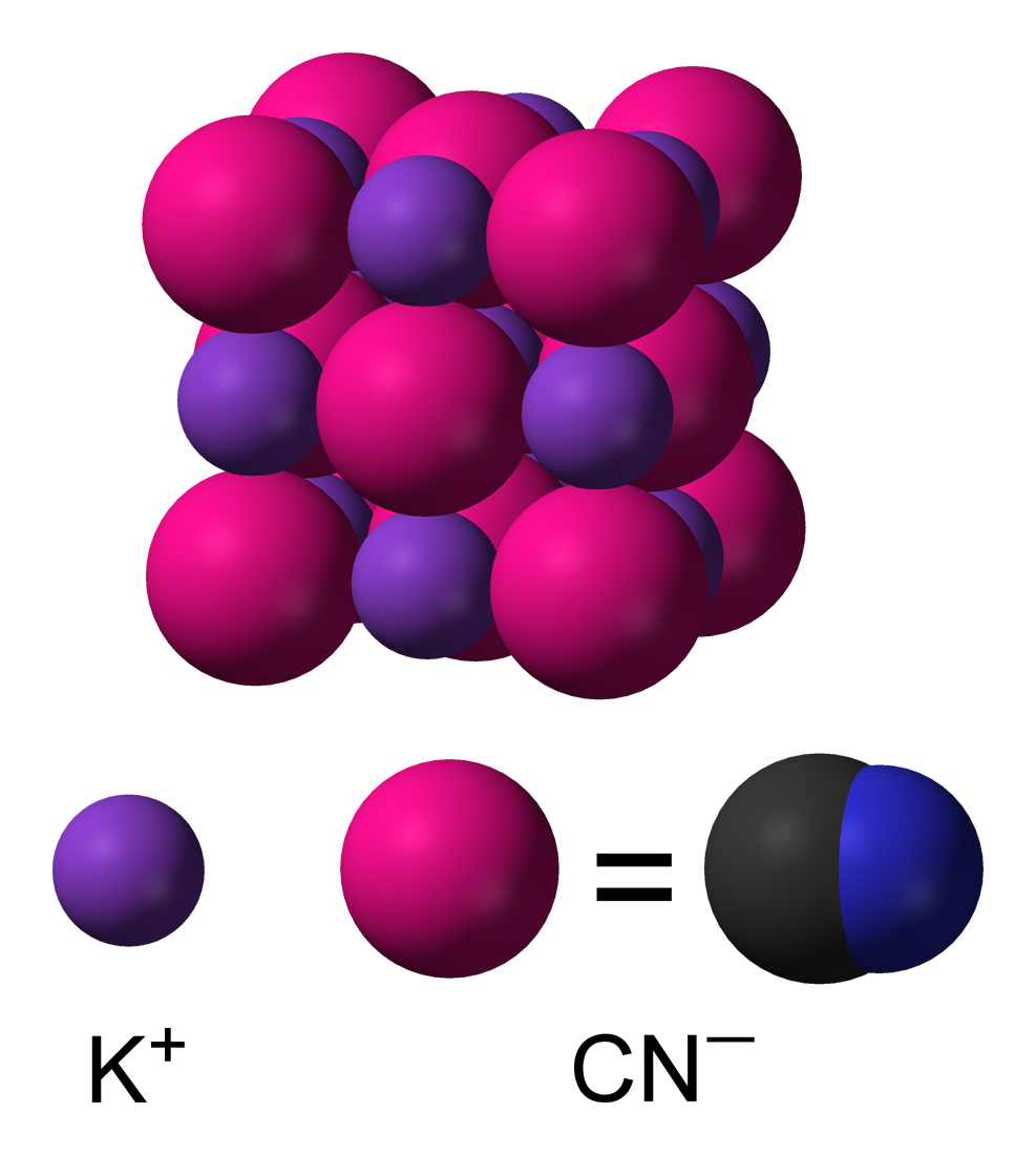 Space-filling model of the unit cell of phase I (rock-salt structure) of potassium cyanide, KCN. Potassium ions, K+, are represented by purple spheres, and cyanide ions, CN−, exbihit dynamic rotational disorder and are represented by magenta spheres. The lattice parameter a = 6.4802 Å, the temperature is 200 K and the pressure is 54 MPa. X-ray crystallographic data from H. T. Stokes, D. L. Decker, H. M. Nelson, J. D. Jorgensen (1993). "Structure of potassium cyanide at low temperature and high pressure determined by neutron diffraction". Phys. Rev. B 47 (17): 11082-11092. "The CN− ions undergo rapid reorientations centered at the Wyckoff 4a position (0,0,0). The time-averaged symmetry of the CN− ions about that point is cubic (point group m-3m). The rotation is not free, but is hindered. The potential energy of the CN− ion is lower for the directions of orientation, and the CN− ion spends more time near those minima." Model constructed in CrystalMaker 8.1. Image generated in Accelrys DS Visualizer.